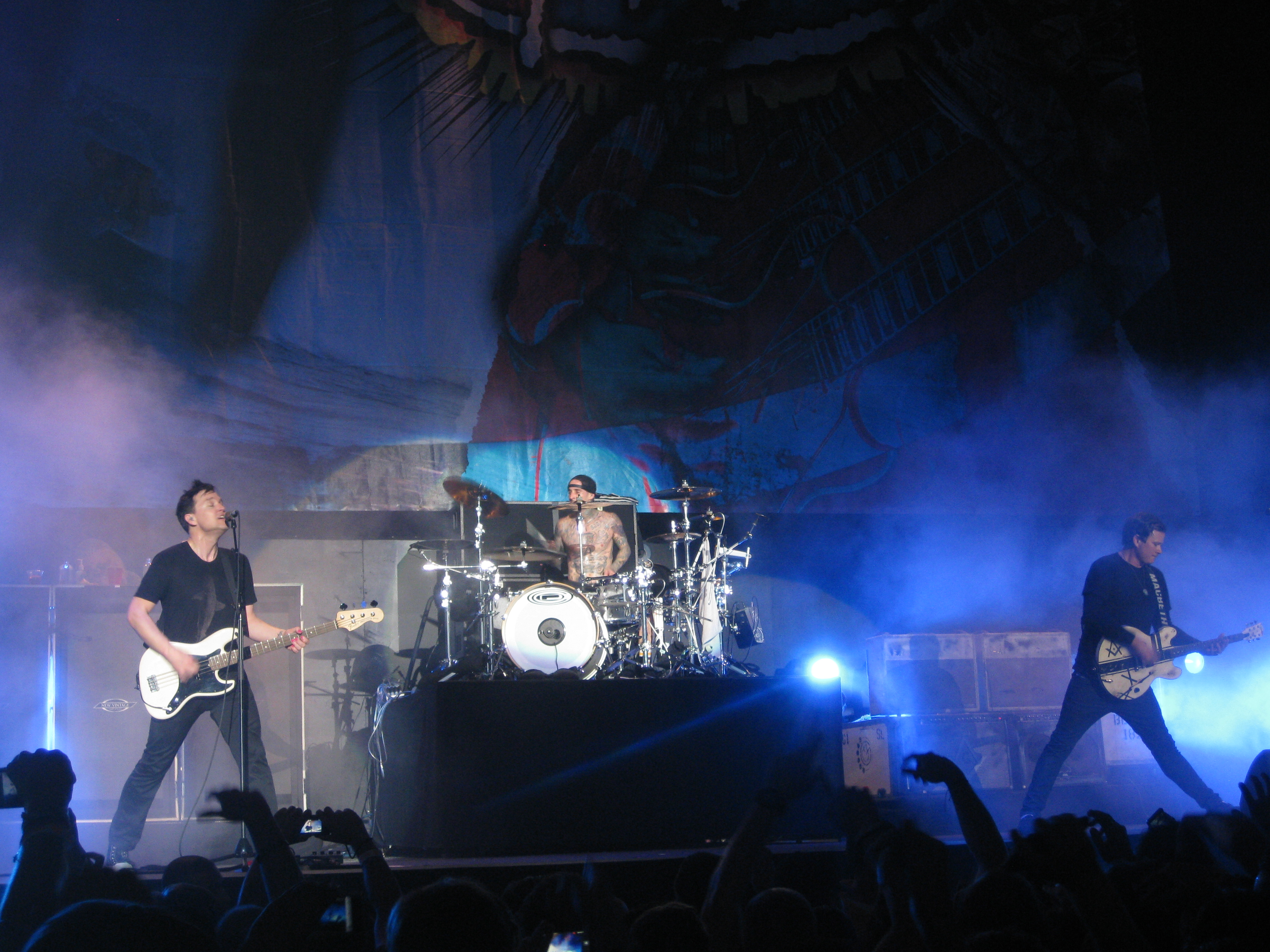 Blink-182 performing at the Valley View Casino Center in San Diego, California on December 11, 2011 as part of radio station 91X's "Wrex the Halls" concert. Left to right: singer/bassist Mark Hoppus, drummer Travis Barker, and singer/guitarist Tom DeLonge.